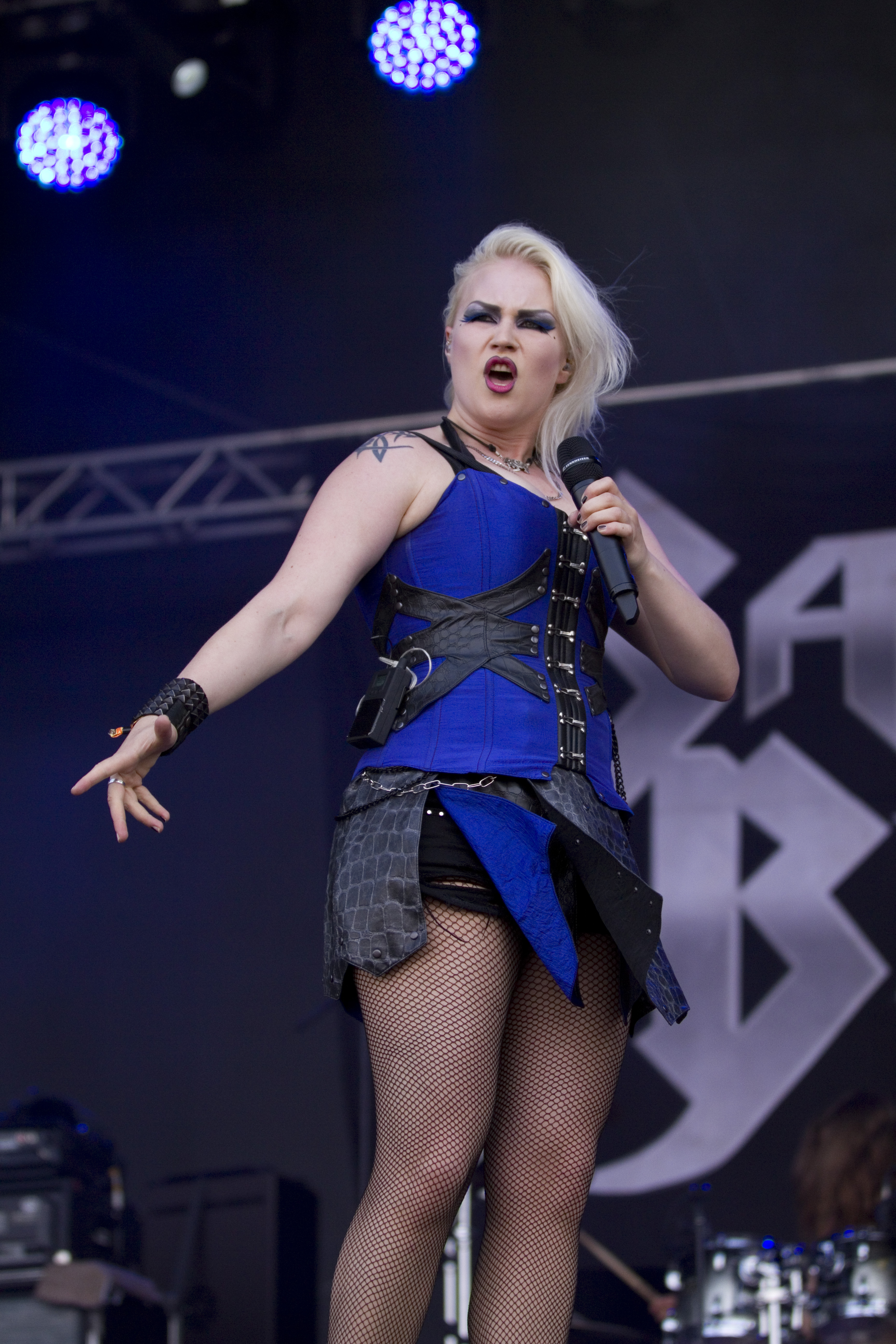 The Finnish heavy metal band Battle Beast at the Rockharz Open Air 2014 in Ballenstedt/Germany